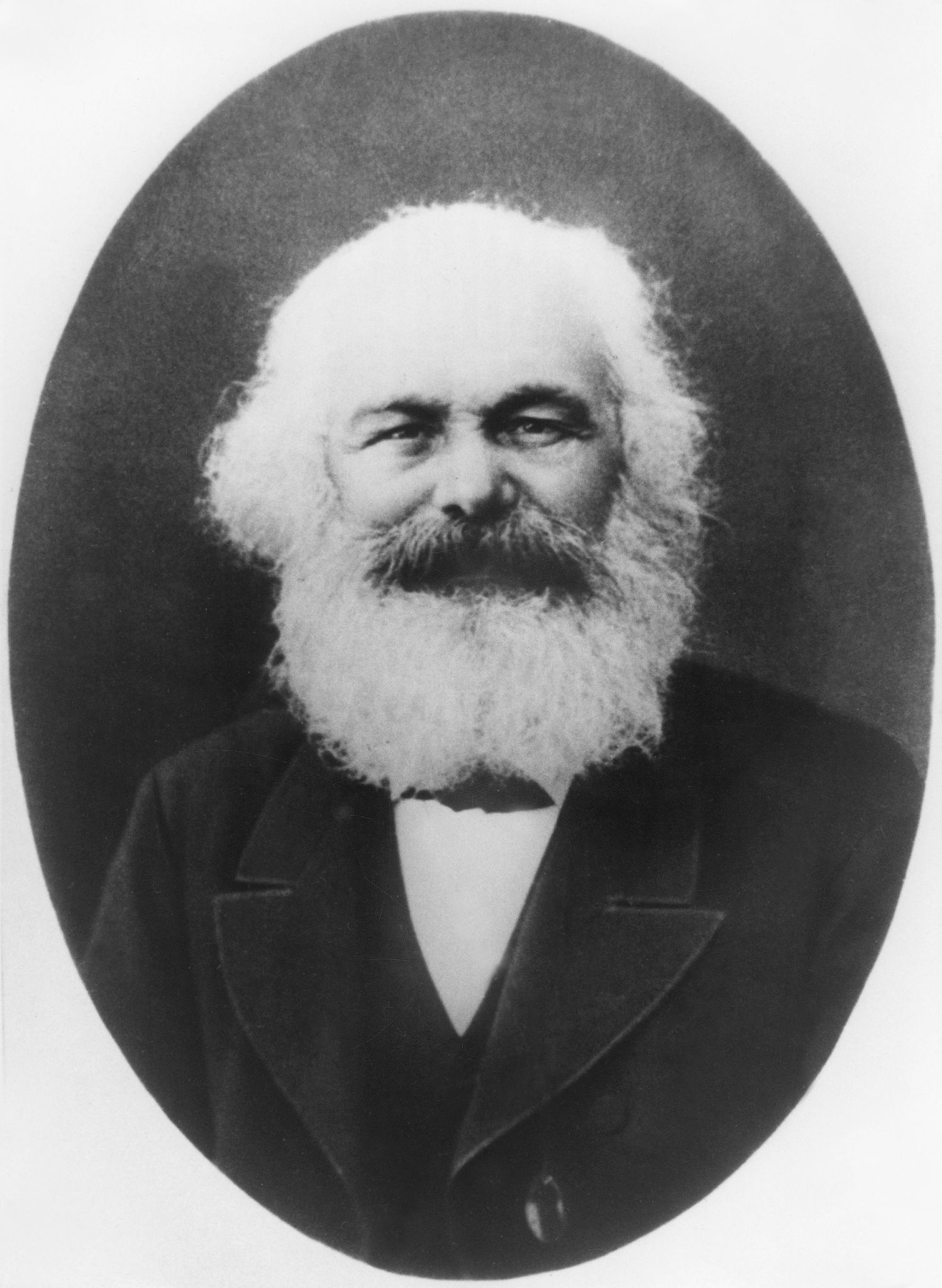 Karl Marx 1882 (edited)